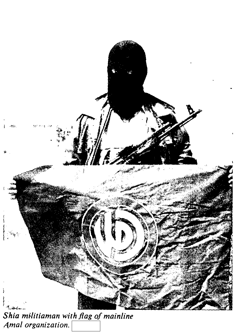 Amal fighter with flag.